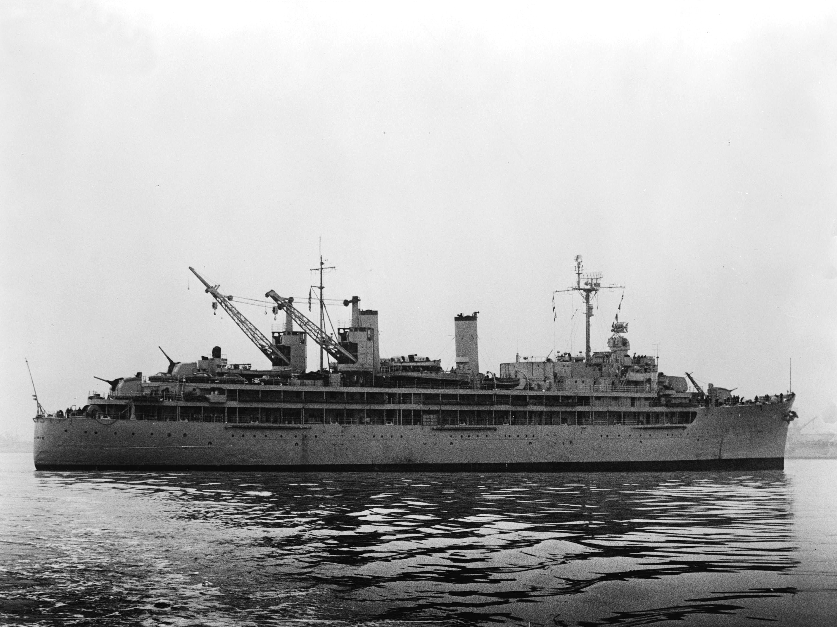 The U.S. Navy destroyer tender USS Prairie (AD-15) off the San Francisco Naval Shipyard, California (USA), following a regular overhaul, in January 1956.